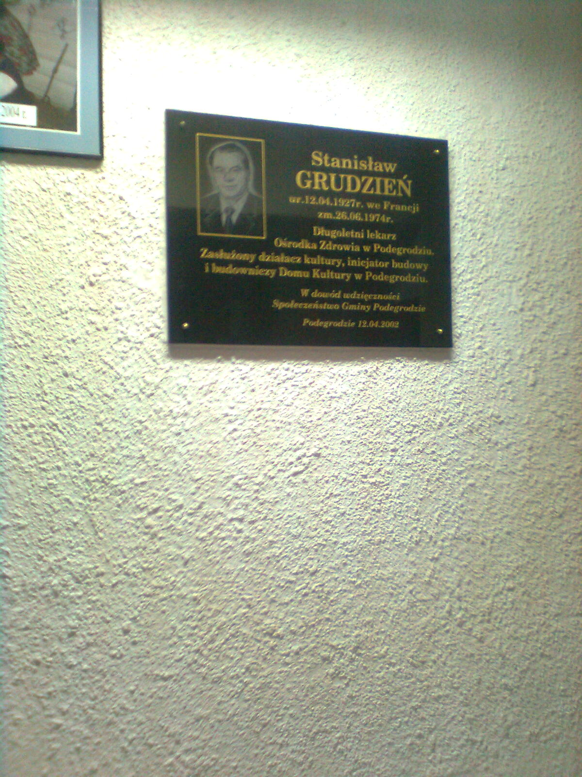 Commemorative plaque in Community Centre in Podegrodzie